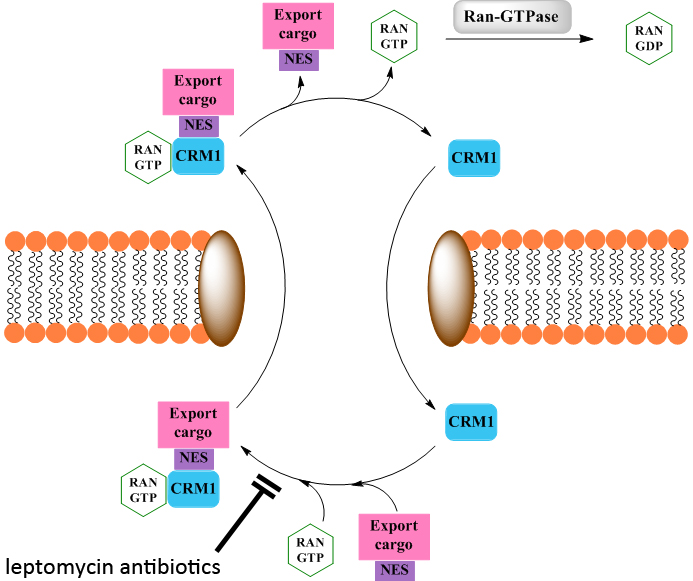 Schematic of inhibition of nuclear export process by the leptomycin family of antibiotics